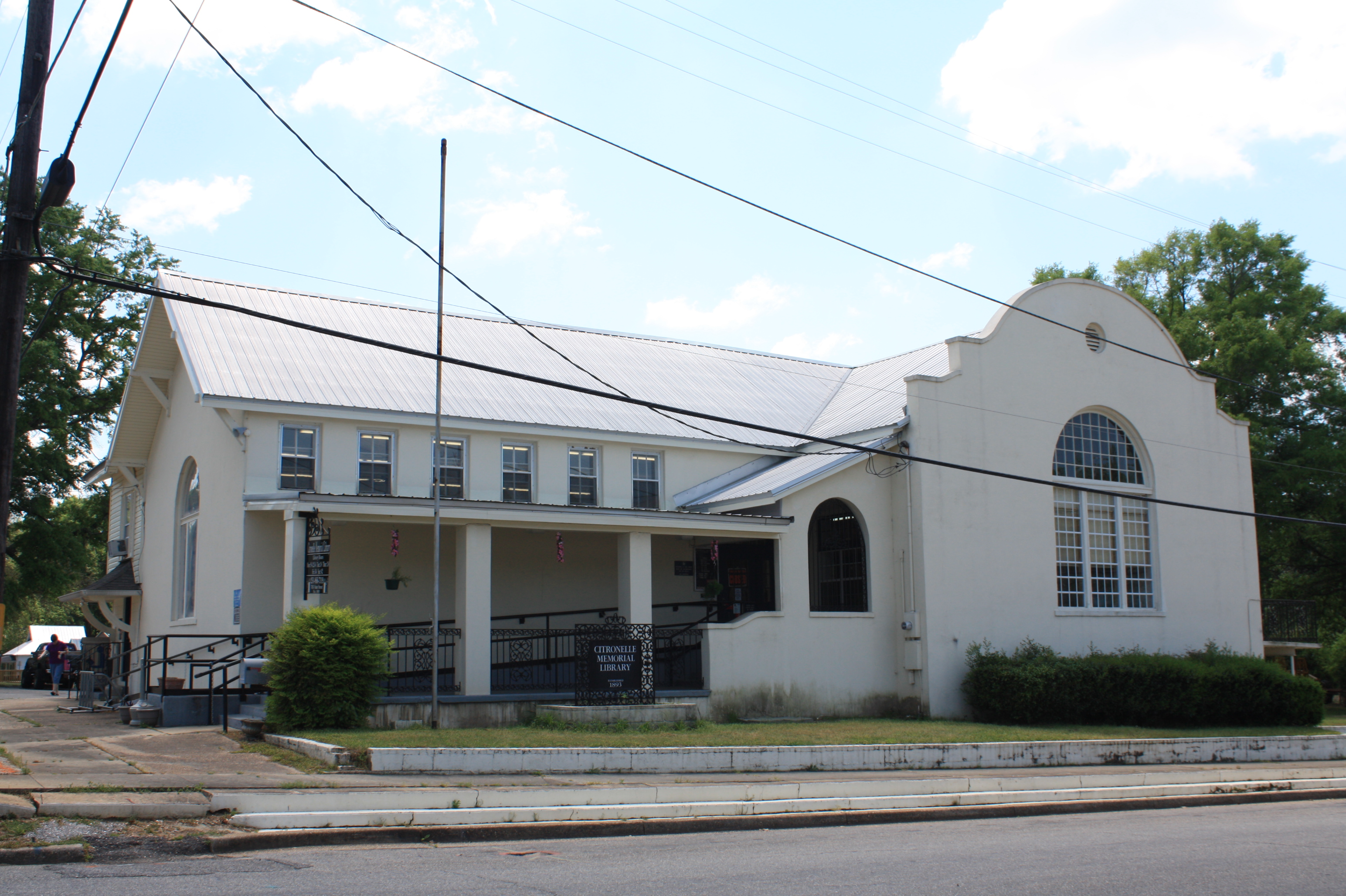 Citronelle Memorial Library at the corner of E. State and S. Mobile Streets in the Central Core Historic District (on the National Register of Historic Places) in Citronelle, Alabama, United States.